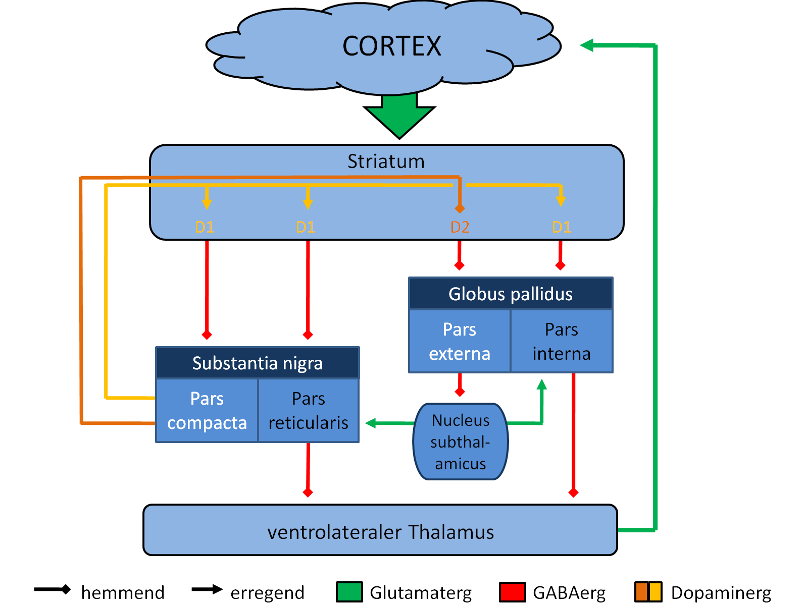 This diagram shows the pathways between the nuclei of the basal ganglia in the human brain.